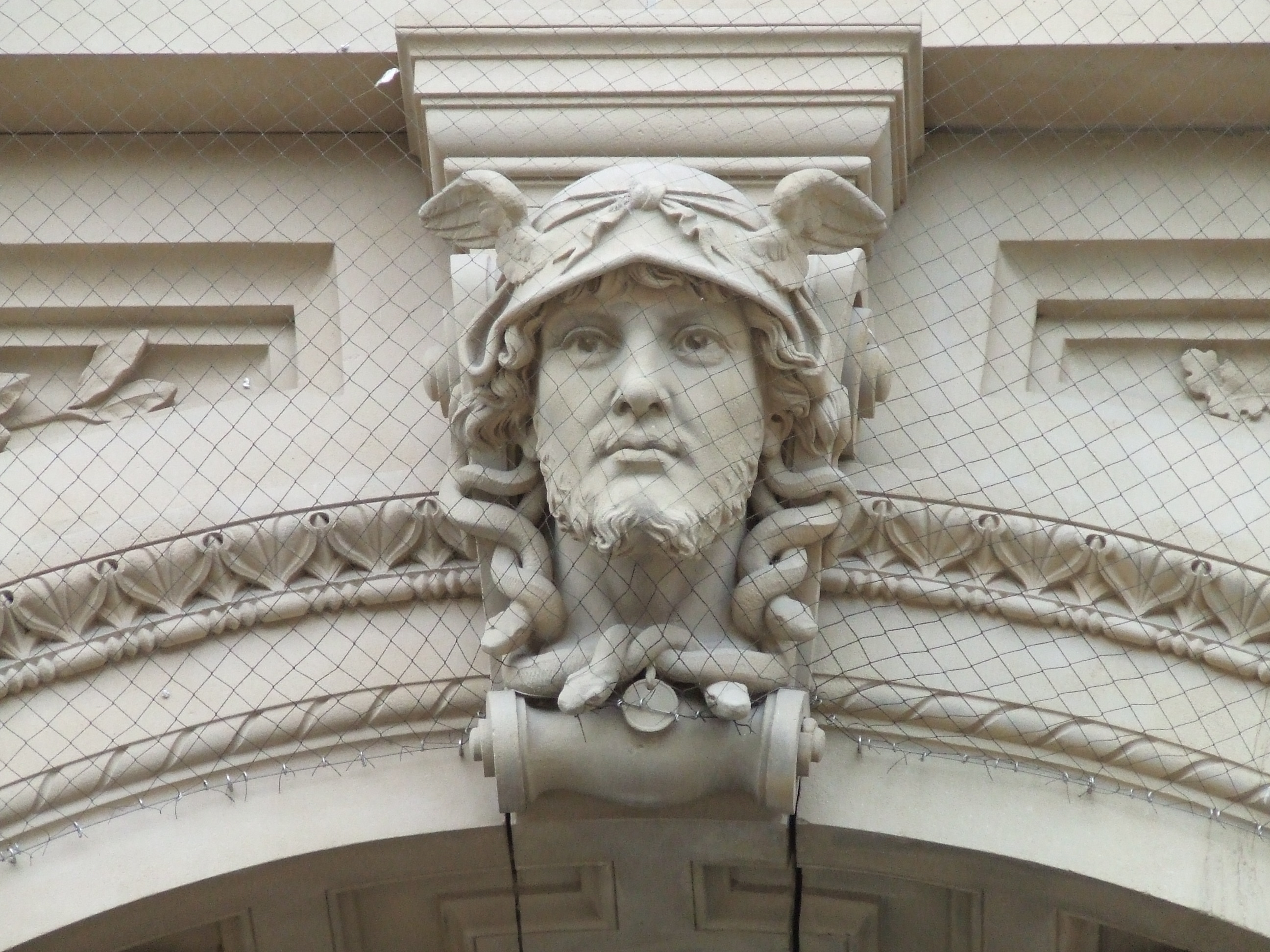 Mainz Hauptbahnhof in Mainz. Central Station, Mainz, Germany. This ist Mercury (mythology) not Hermes!!!